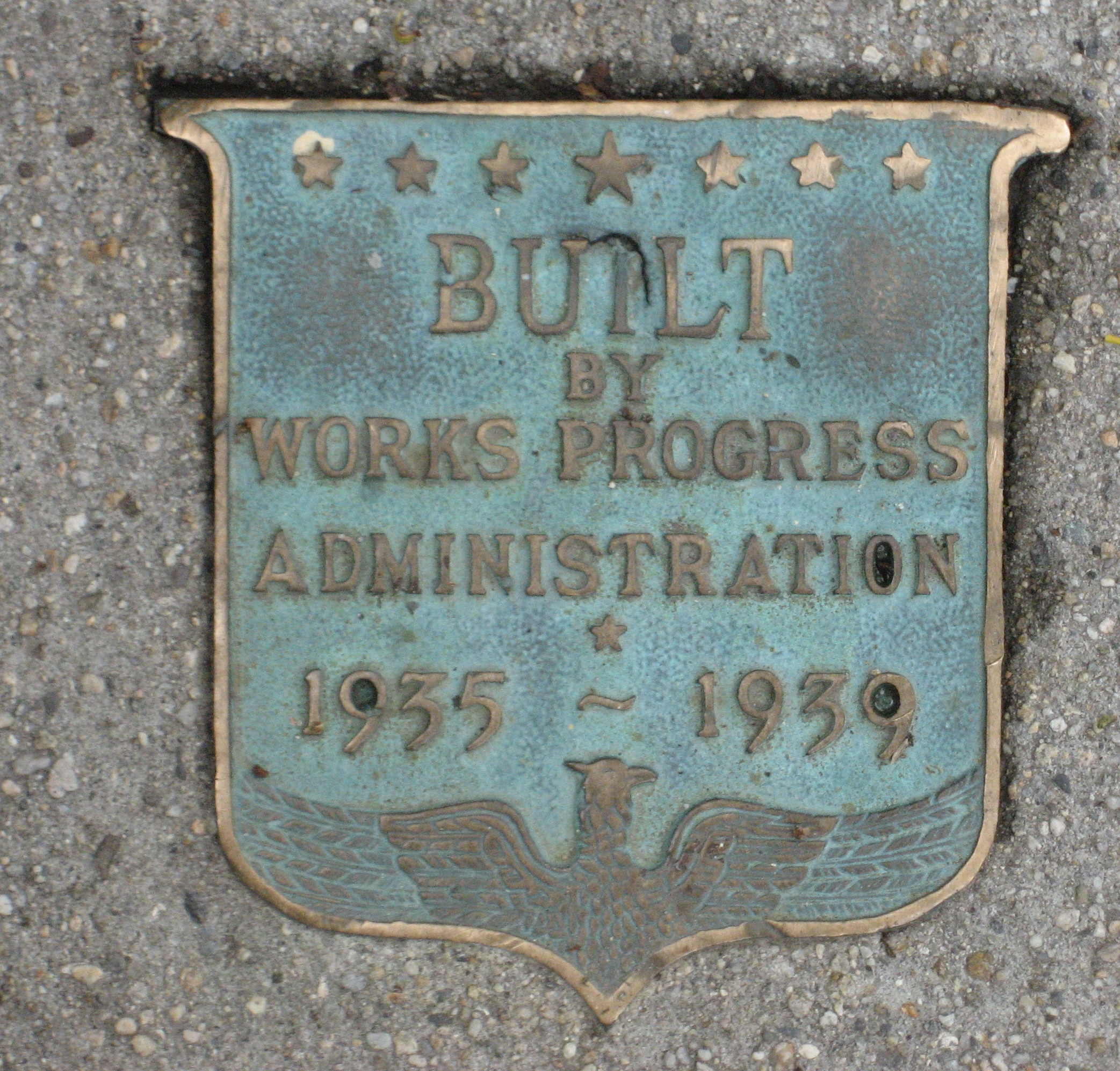 Providence, Rhode Island. WPA plaque with dates of construction, Prospect Park